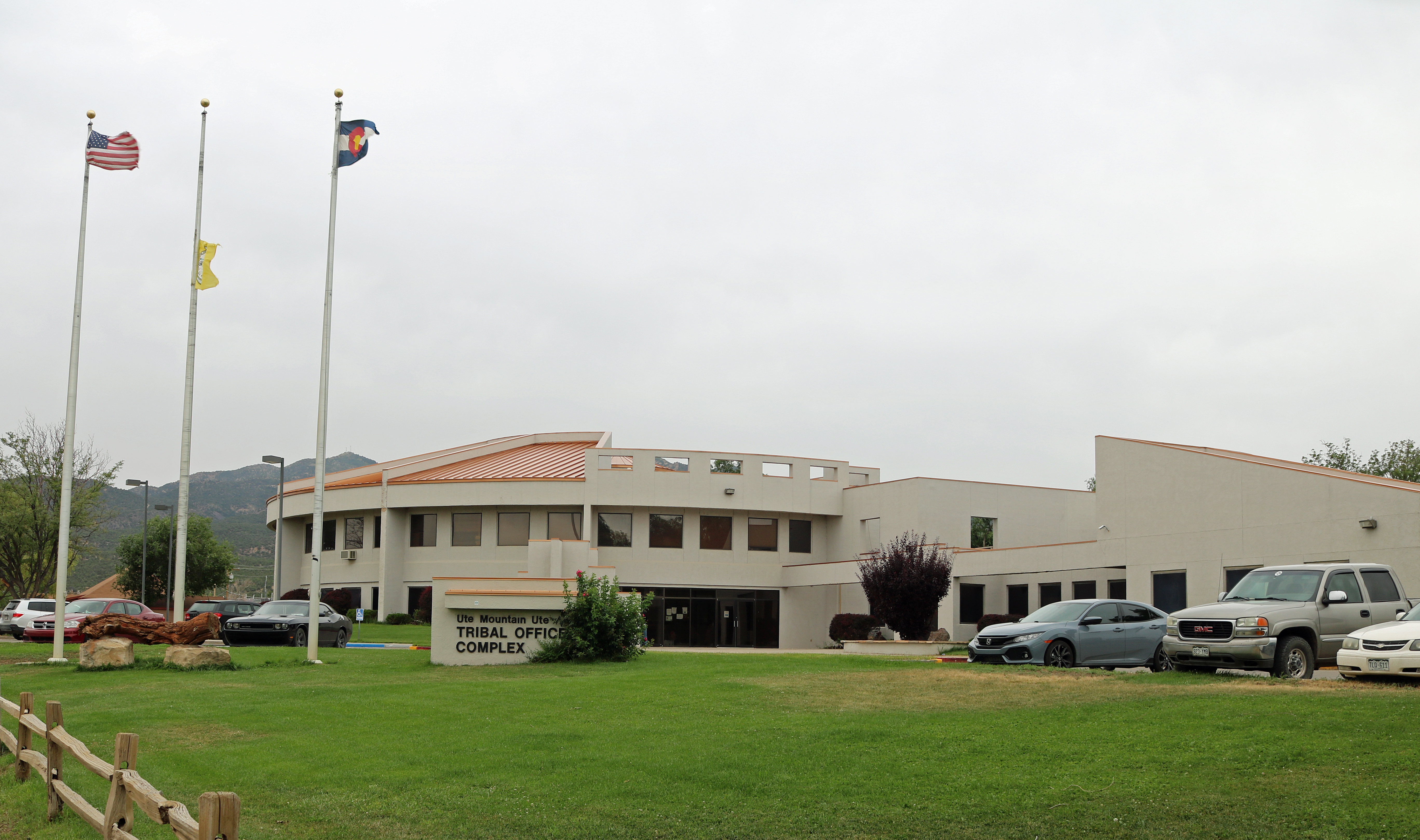 The Ute Mountain Ute Tribal Office Complex, located at 124 Mike Wash Road in Towaoc, Colorado.